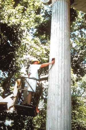 Non-destructive evaluation technique